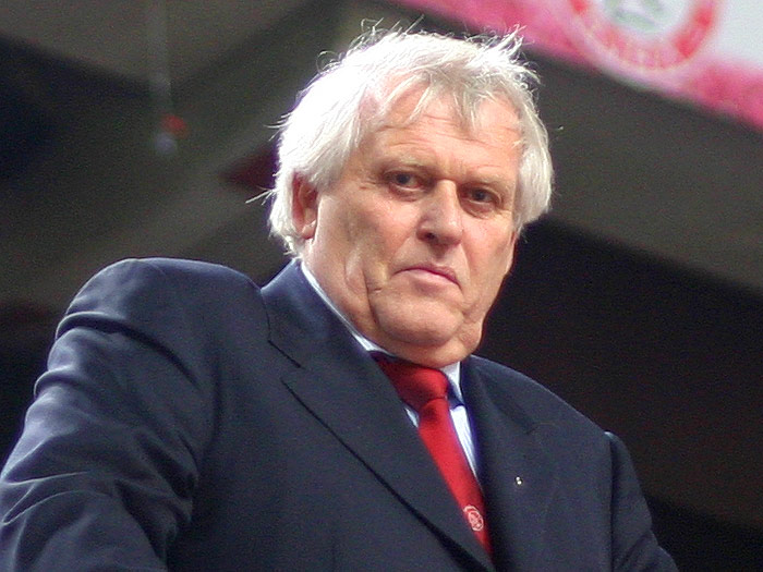 Piet Keizer, Dutch national football player